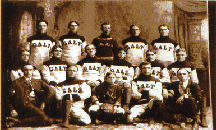 Galt F.C., winners of the inagurual Ontario Cup in 1901